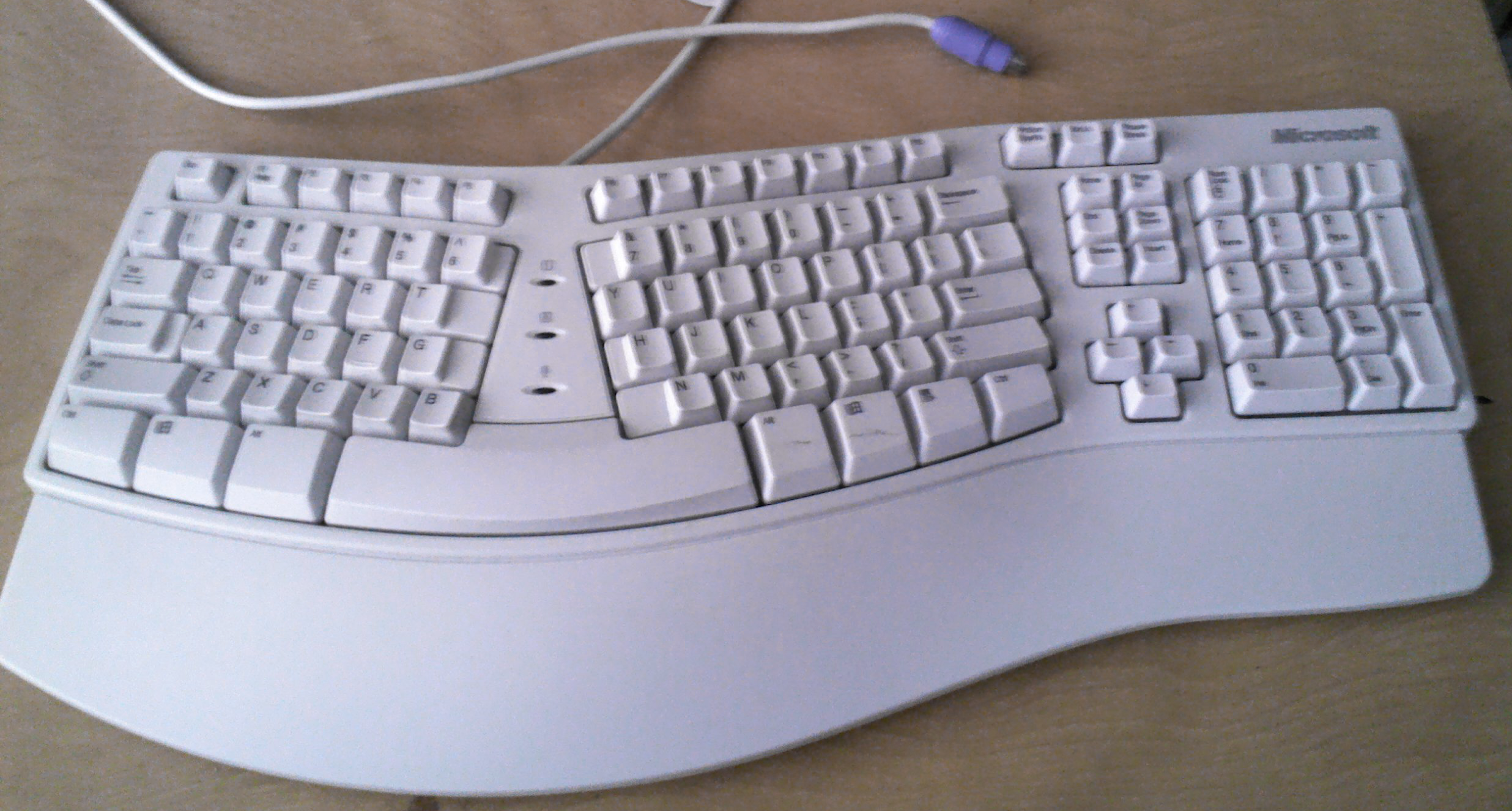 This is the MS Natural Keyboard Elite, a successor to the MS Natural Keyboard.